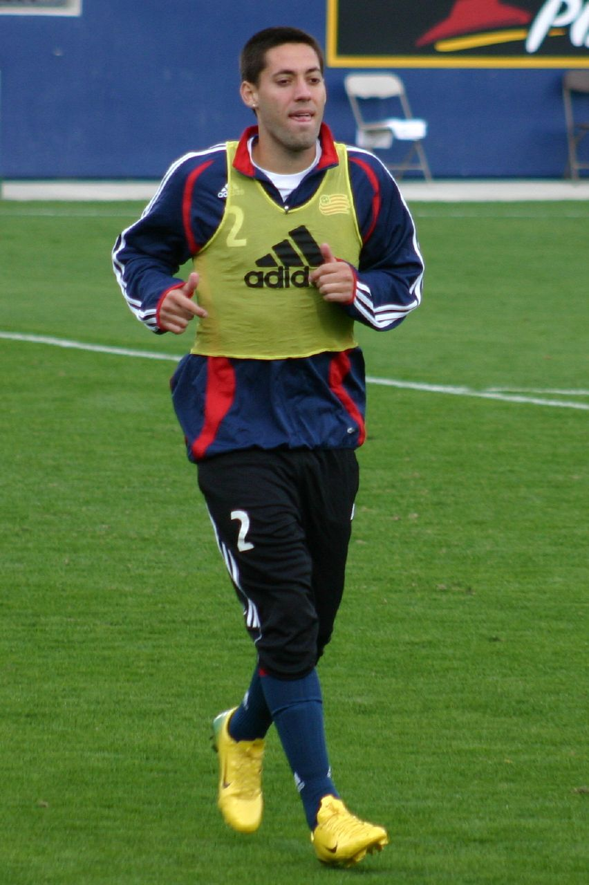 Clint Dempseyt at MLS Cup 2006. The Houston Dynamo defeated the New England Revolution 4-3 on penalties after the two teams drew 1-1 at the end of extra time. 11/12/2006 Pizza Hut Park, Frisco, Texas.